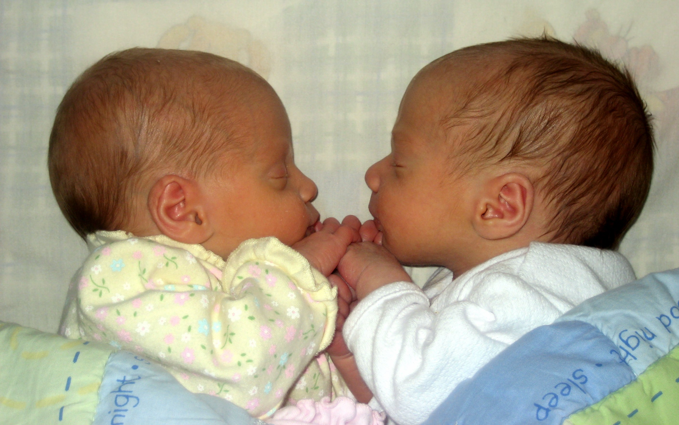 fraternal twins